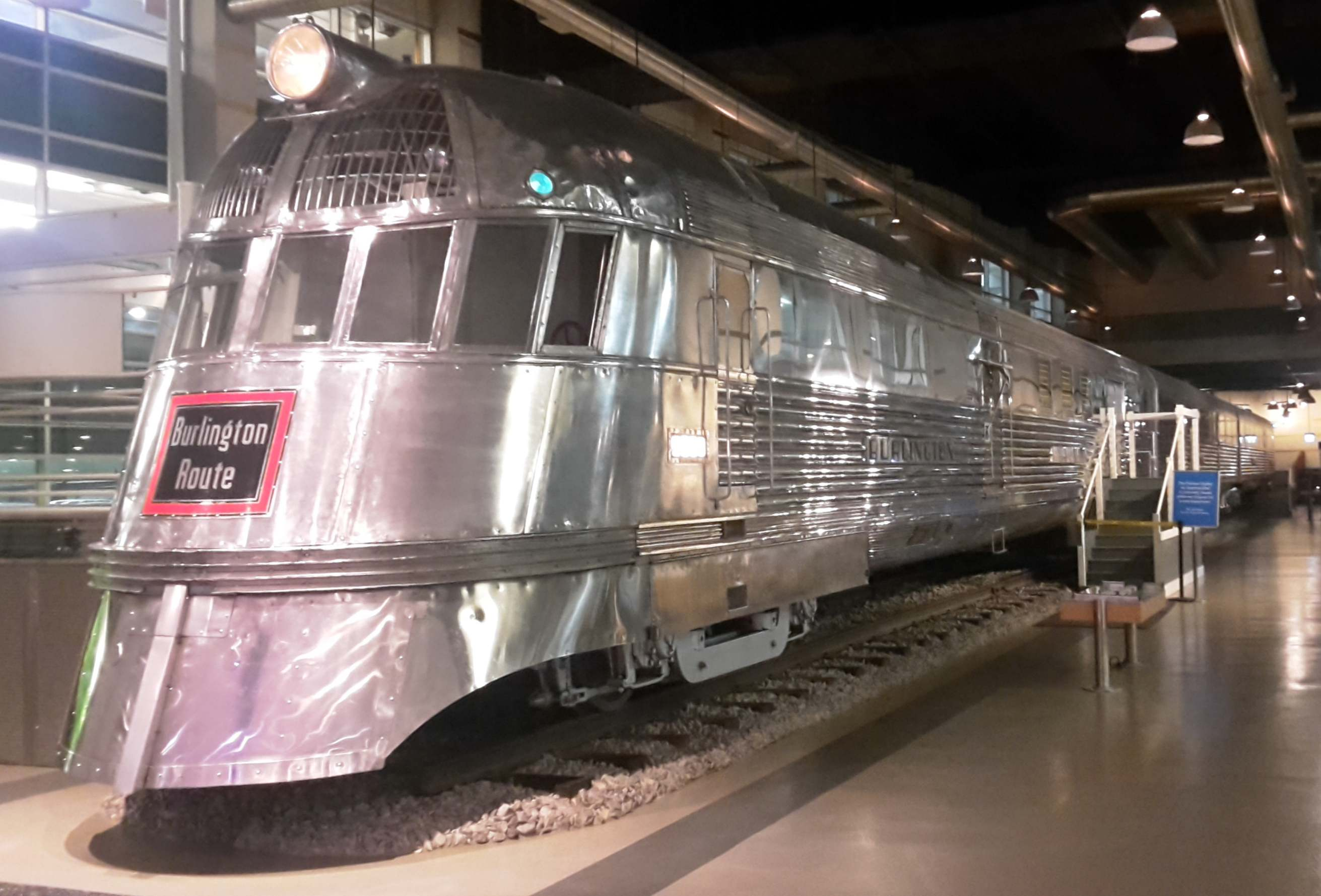 Pioneer Zephyr (CB&Q 9900, Budd 1934) in the Museum of Science and Industry, Chicago